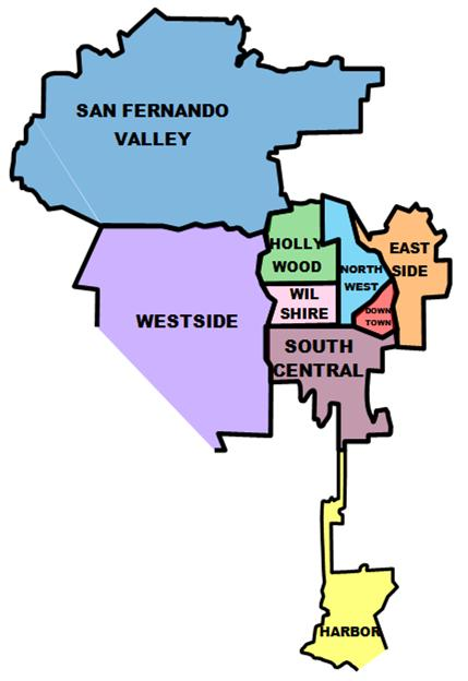 Map of the nine proposed districts for the Wikivoyage article on Los Angeles